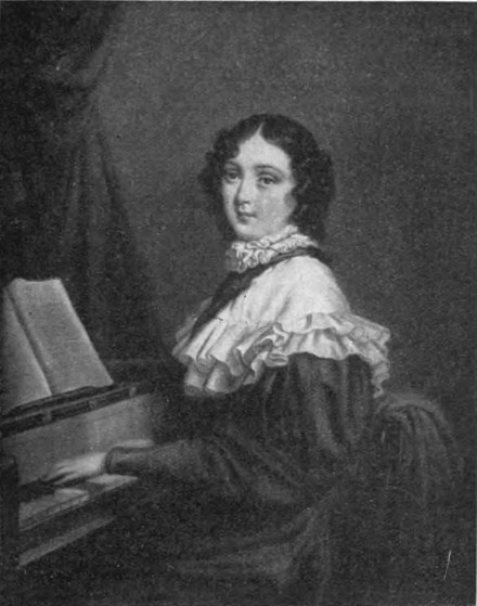 Emilie Högquist. After an oil painting by A. J. Fägerplan. Image from Nils Personne: Svenska Teatern VIII (1927).